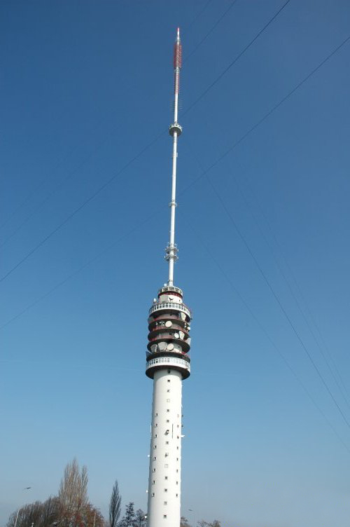 Gerbrandy broadcast tower. Location: IJsselstein, The Netherlands Photographer: Wilbert van de Kolk